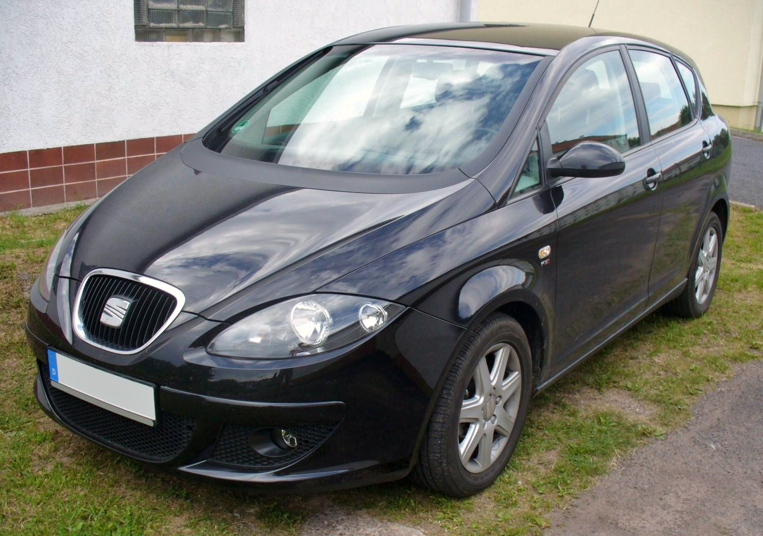 Seat Toledo